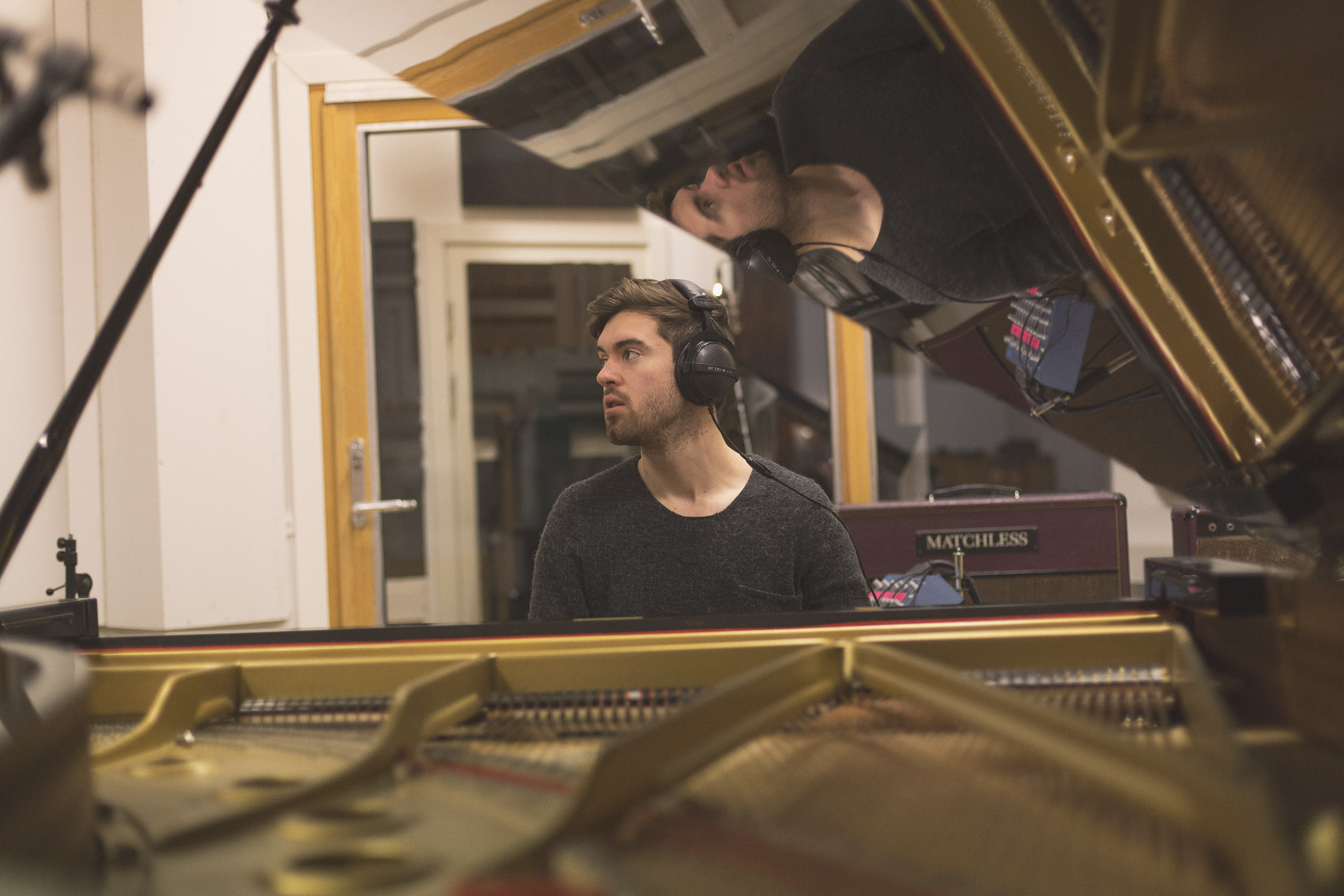 Kjetil Mulelid in studio with the jazz quartet Wako. Photo by Henrik Fjørtoft